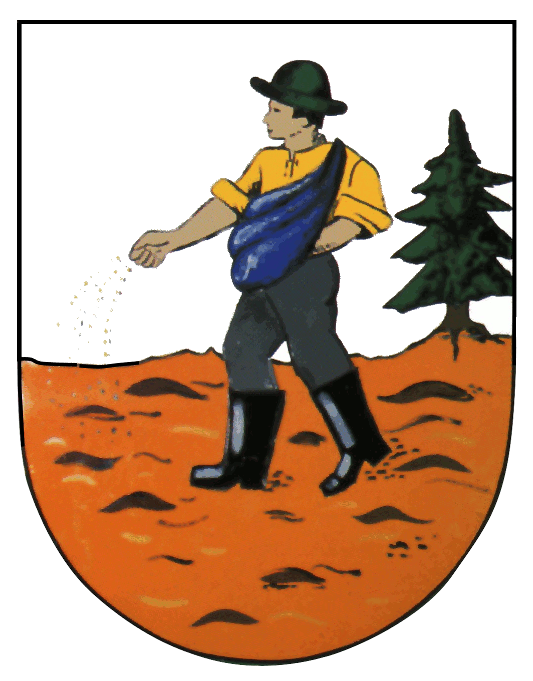 Coat of Arms of Lohmen, Saxon Switzerland, Germany